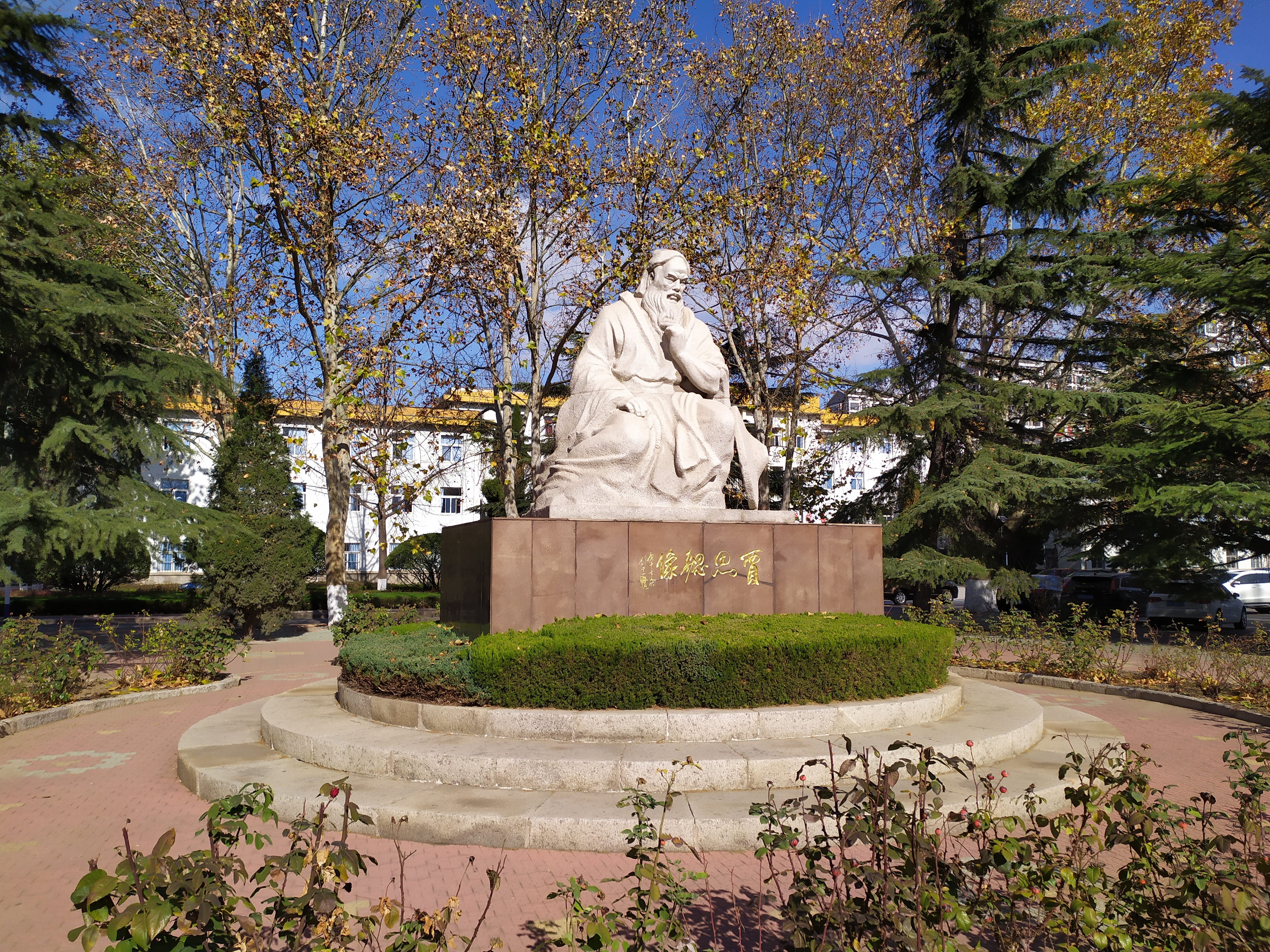 Sculpture of Jia Sixie in Weifang Vocational College